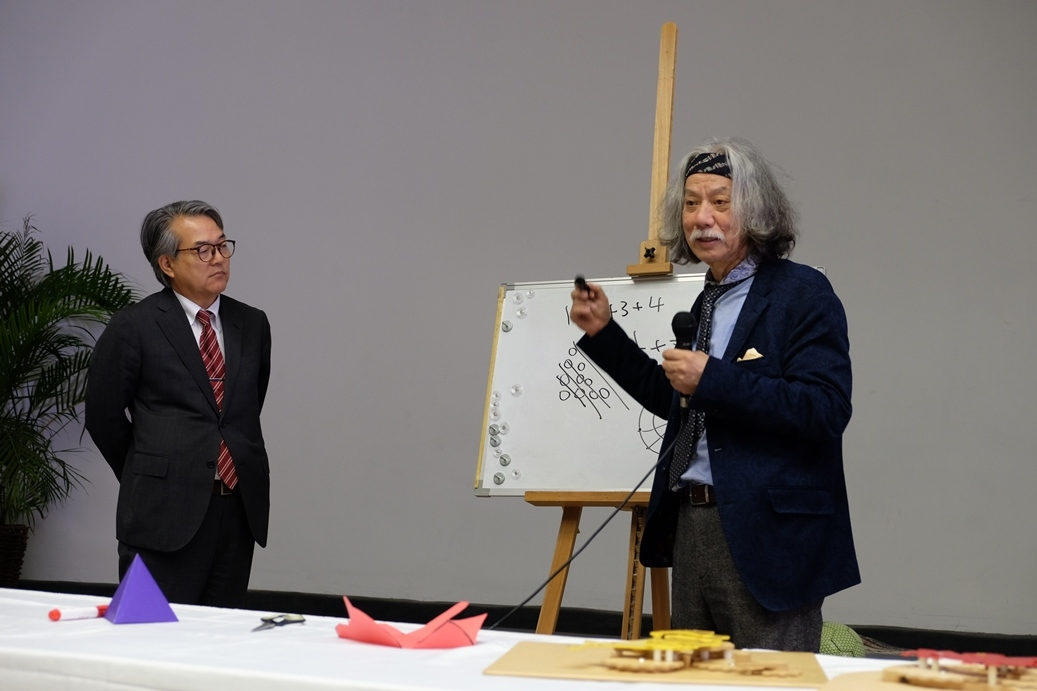 Jin Akiyama, Specially Appointed Vice President of Tokyo University of Science, gave a lecture with Hiroyuki Makiuchi, Ambassador to Dominican Republic, at the National Institute of Education and Training for Teachers in Santo Domingo City, Distrito Nacional on October 9, 2018.